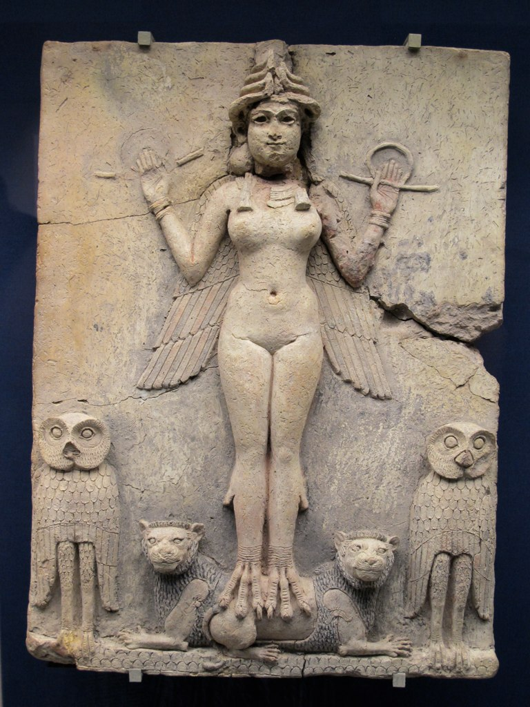 The 'Queen of the Night' Relief, The figure could be an aspect of the goddess Ishtar, Mesopotamian goddess of sexual love and war. Her bird-feet and accompanying owls have suggested to some a connection with Lilitu (called Lilith in Jewish lore), though seemingly not the usual demonic Lilitu. Old Babylonian, 1800-1750 BC. From southern Iraq. British Museum, London.